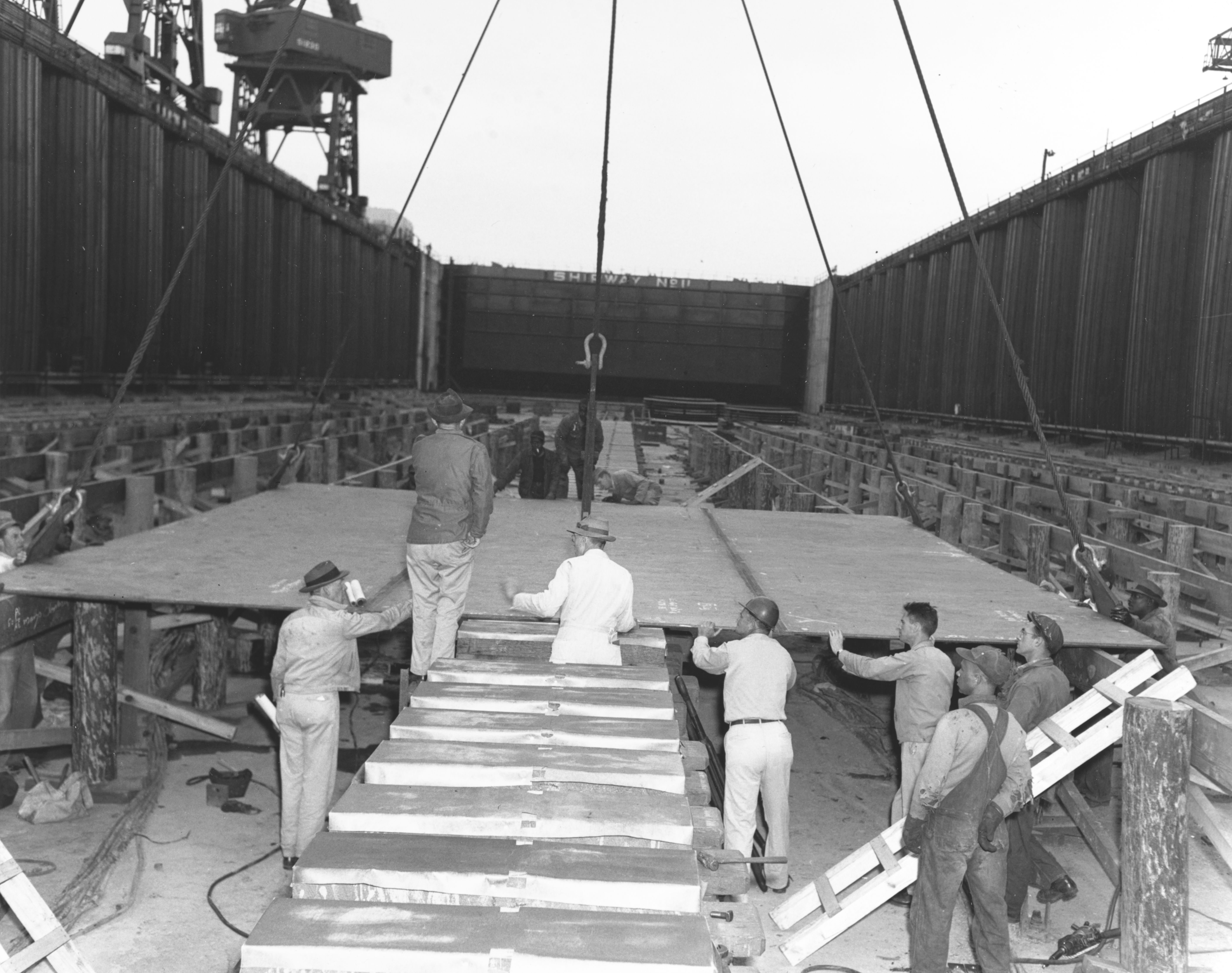 Workmen lay the 15-ton keel plate and initial shell plate of the U.S. Navy aircraft carrier USS United States (CVA-58) in a construction dry dock at the Newport News Shipbuilding and Dry Dock Company shipyard, Newport News, Virginia (USA), on 18 April 1949. The carrier was cancelled a few days later, on 23 April.